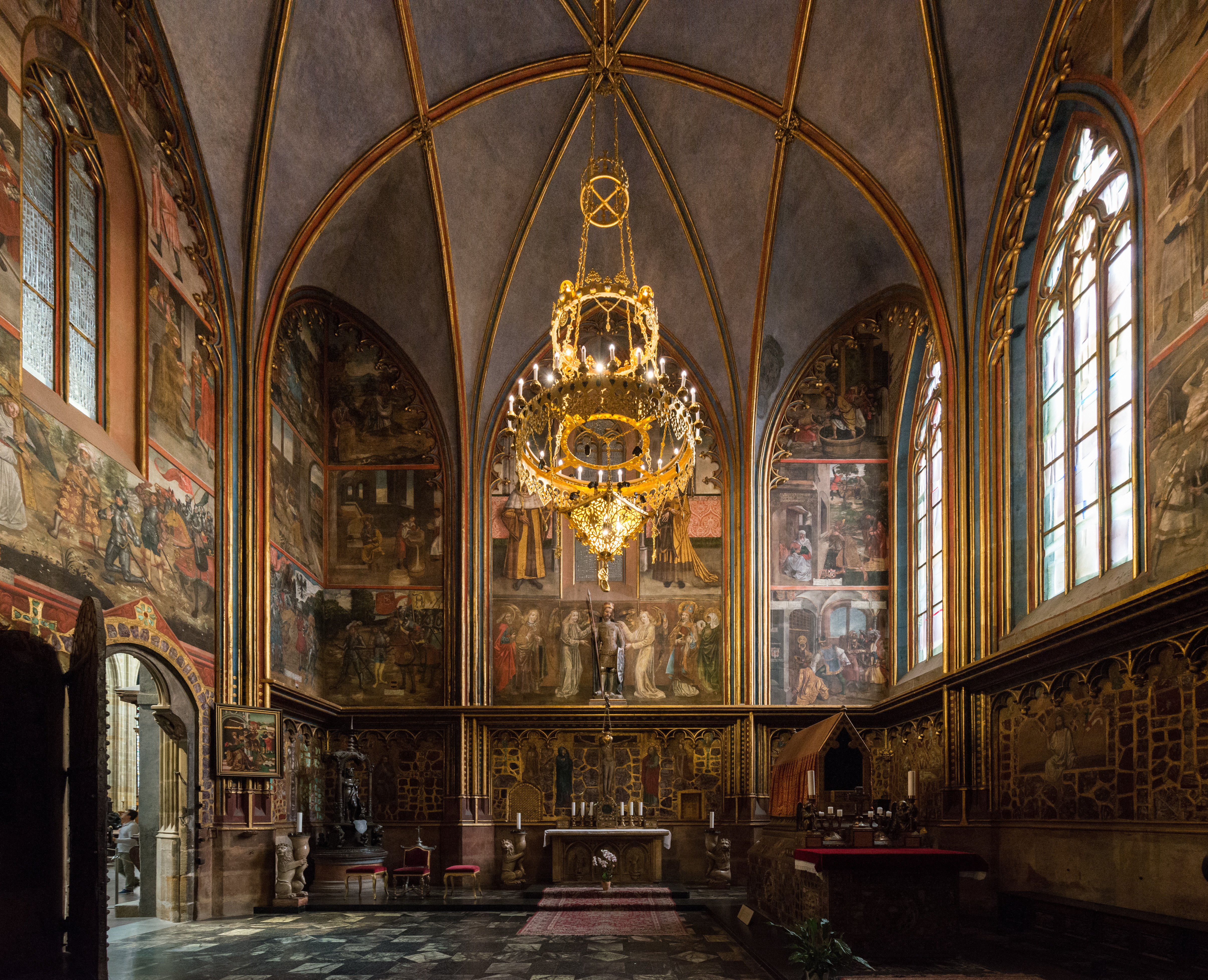 A view of Saint Wenceslas Chapel, St. Vitus Cathedral